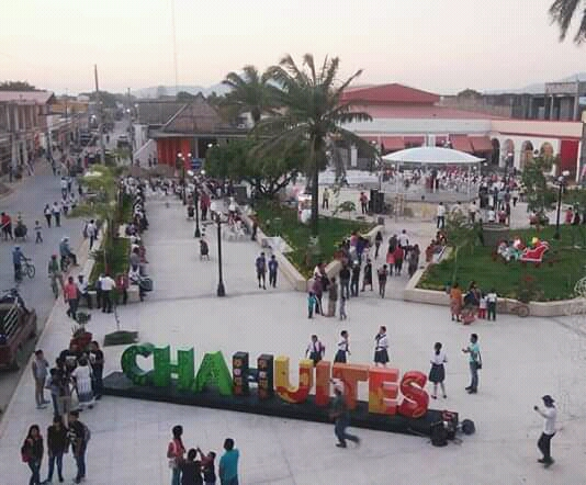 Chahuites Park